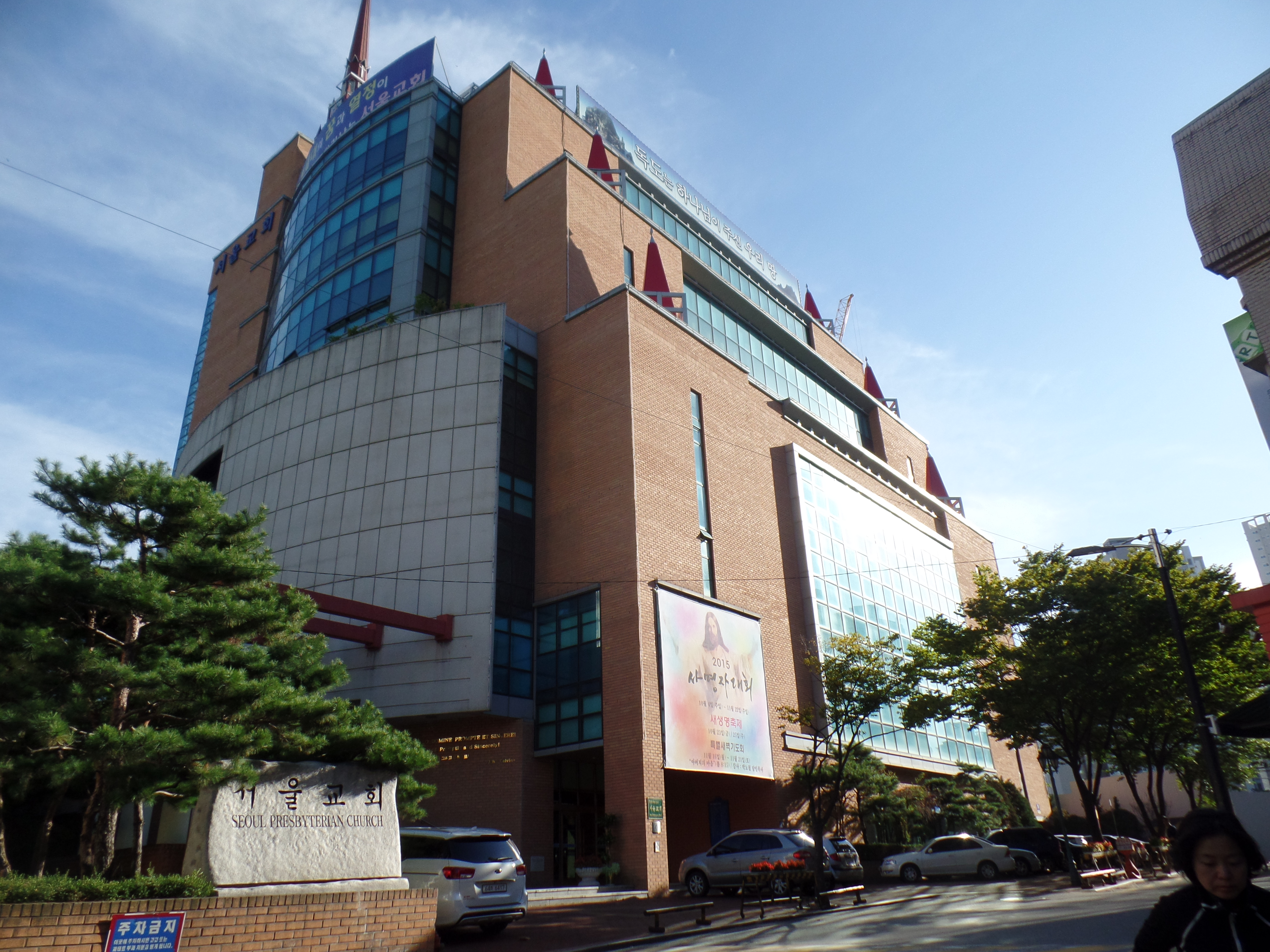 Seoul Presbyterian Church(Deachi-dong, Gangnam-gu, Seoul)